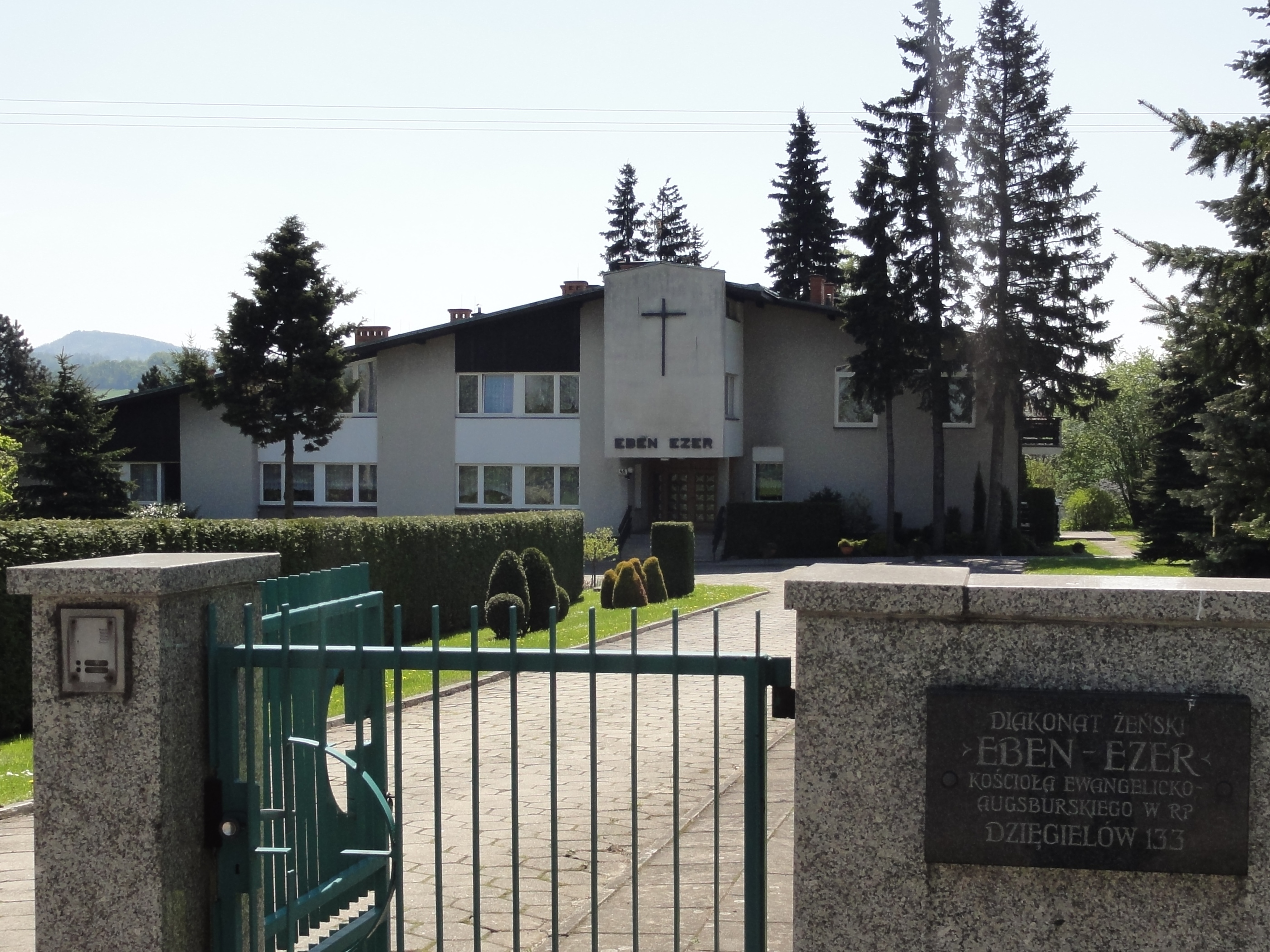 Eben-Ezer Deacon in Dzięgielów